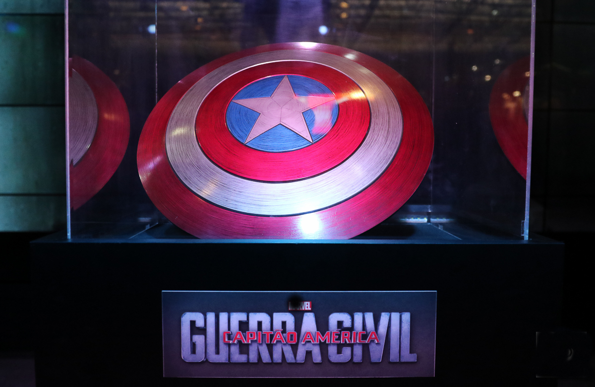 Comic Con Experience 2015